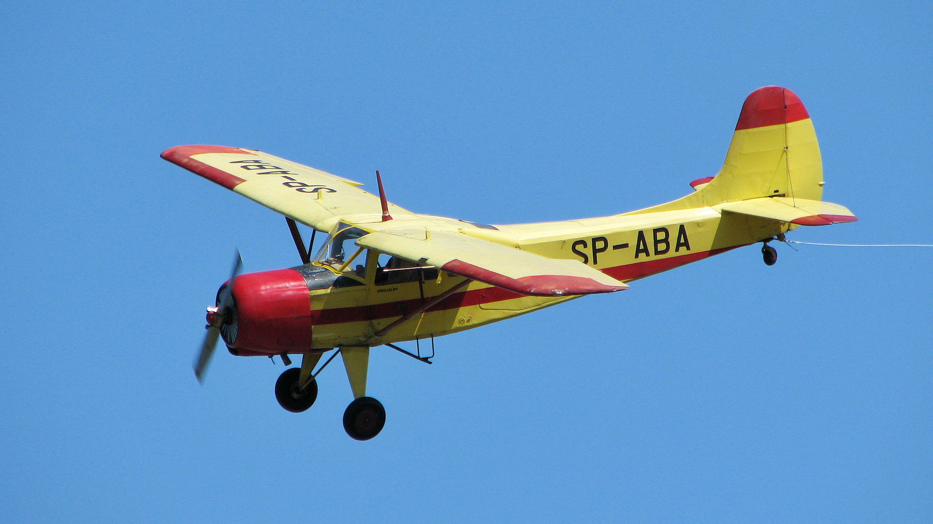 Yakovlev Yak-12A (SP-ABA (cn 30125)) in fly. Aeroklub Stalowowolski